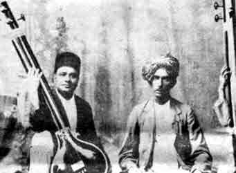 Abdul Karim Khan (died 1937), this photo created before 1941 so in PD both India & US